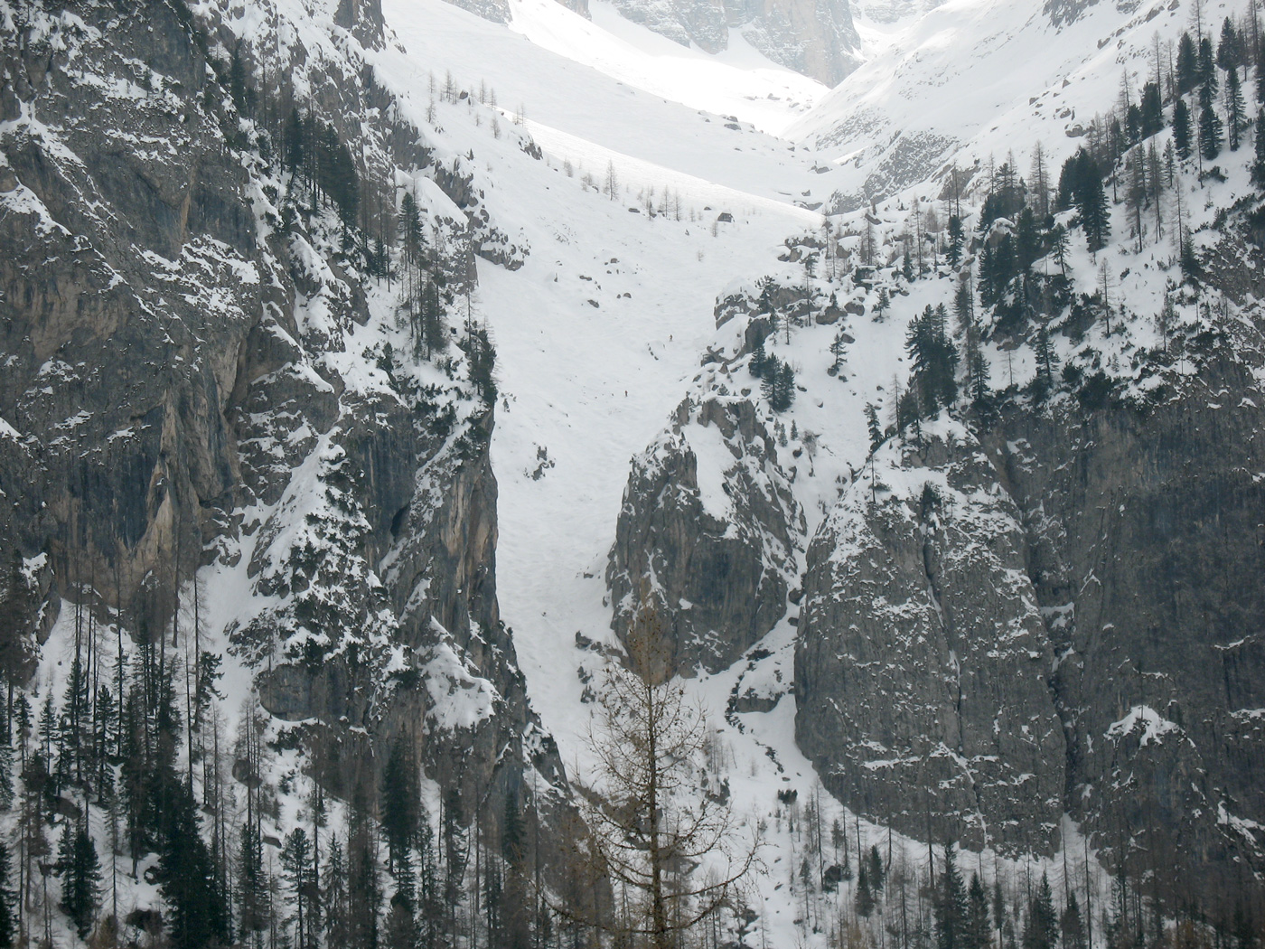 Mittagstal (Ladin: Val de Mesdì) on the Sella in the Dolomites, South Tyrol. The outlet towards the Gadertal (Ladin: Val Badia)